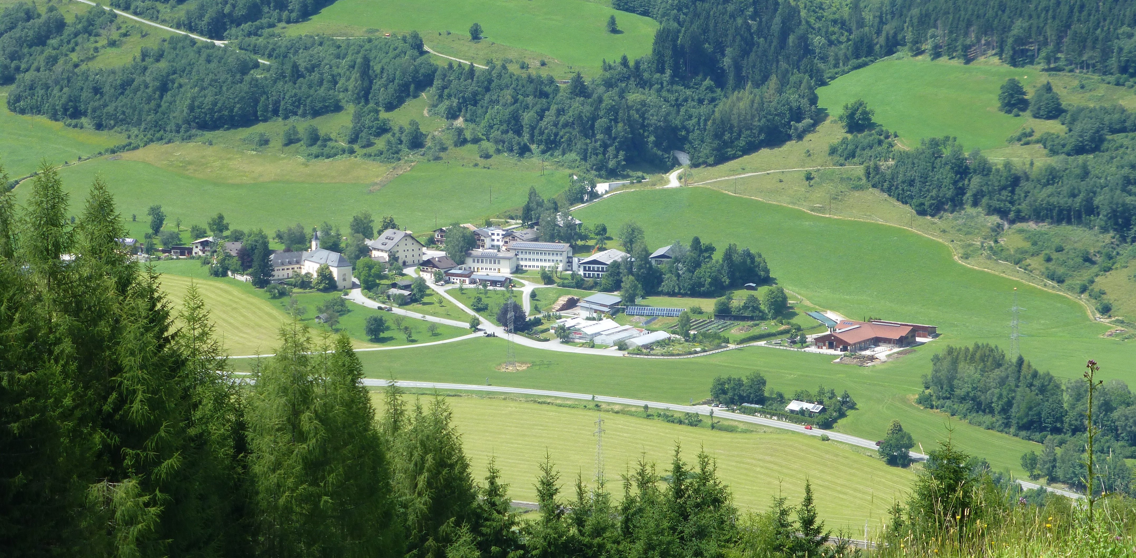 General view of the Caritasanstalt St. Anton, Bruck an der Großglocknerstraße, Salzburg (state), Austria